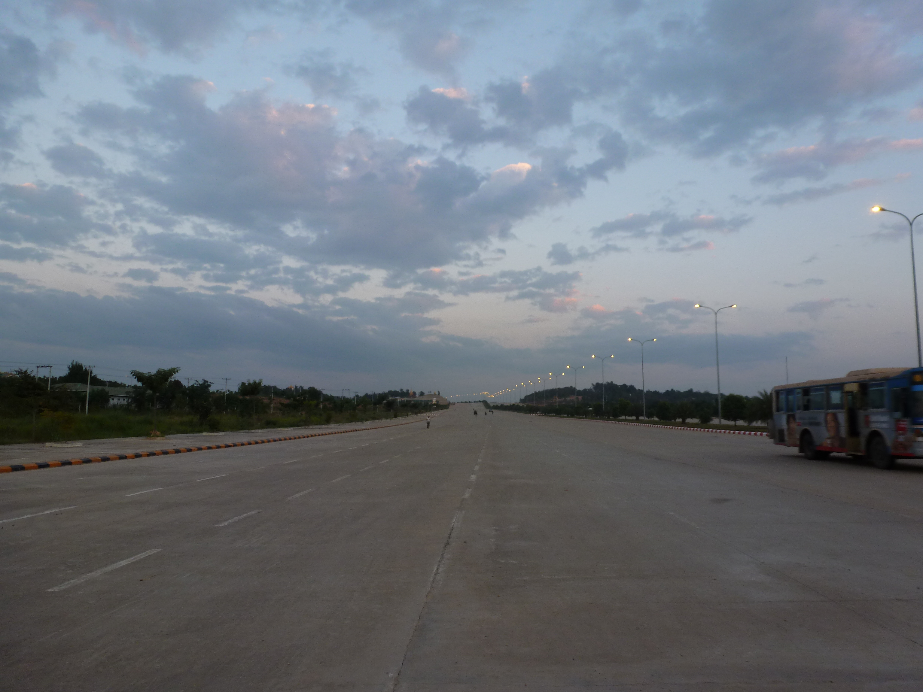 One half of a wide boulevard at Naypyidaw